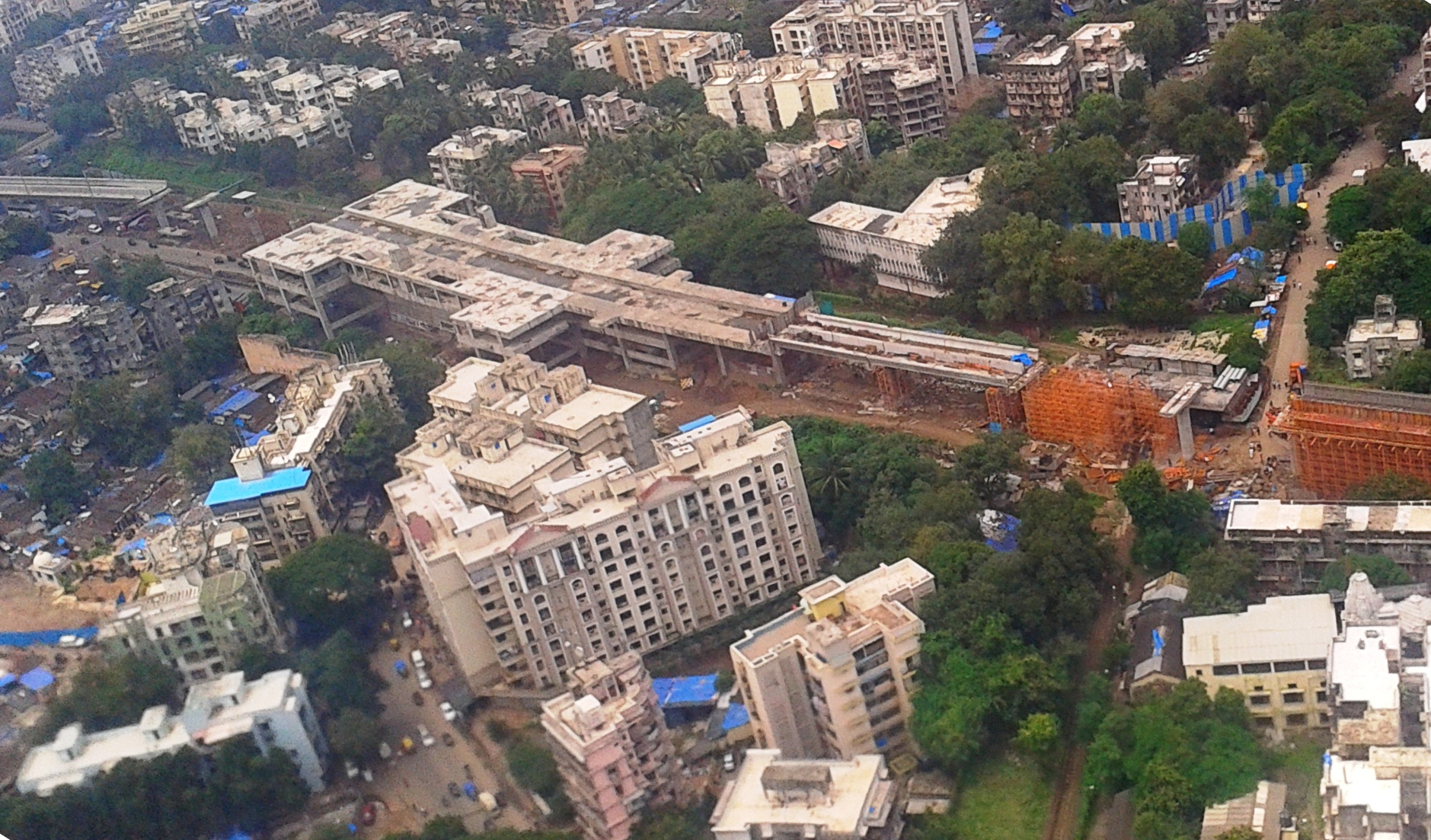 Birds-eye view of the Asalpha (renamed Jagruti Nagar in December 2013) station under construction on Line 1 of the Mumbai Metro.